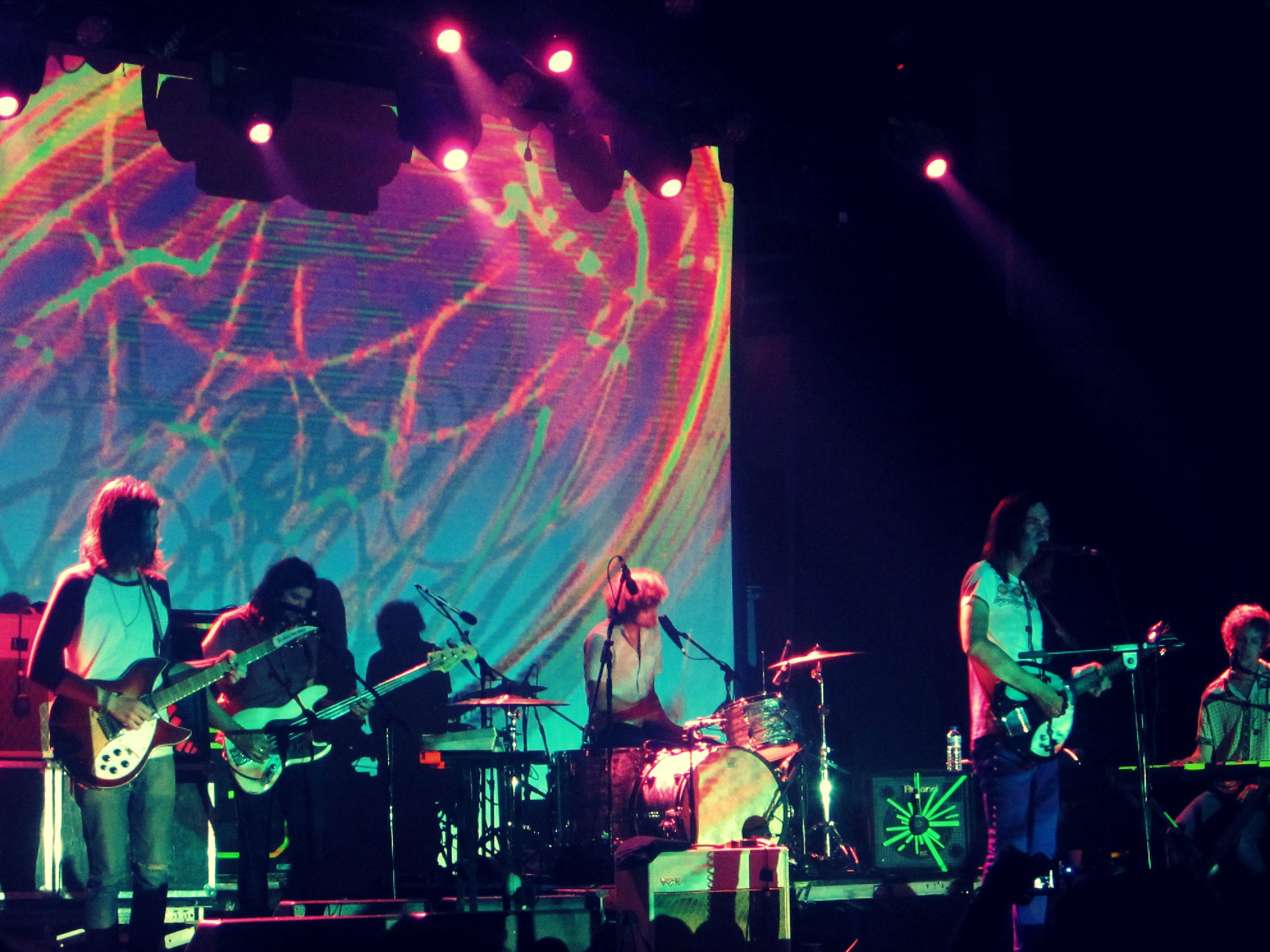 Tame Impala performing at La Riviera in Madrid, Spain on July 13, 2013